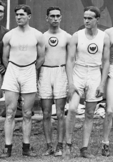 John Eller, Abel Kiviat and John J. Reynolds of the Irish American Athletic Club, part of the 1912 U.S. Olympic team. photo. Original title: Sendoff of Olympic Athletes.